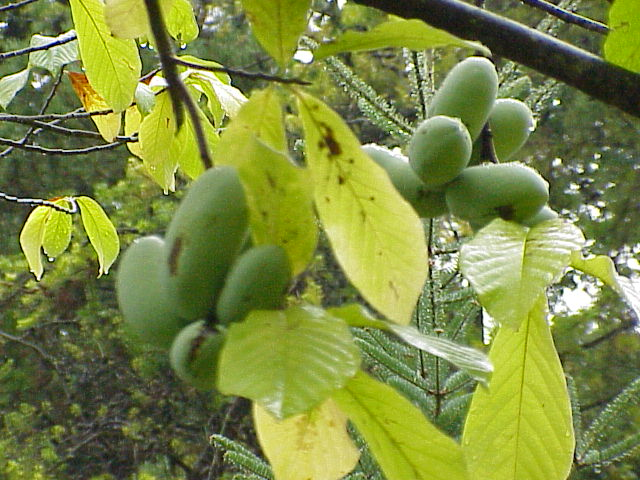 Species: Asimina triloba Family: Annonaceae Image No. 2